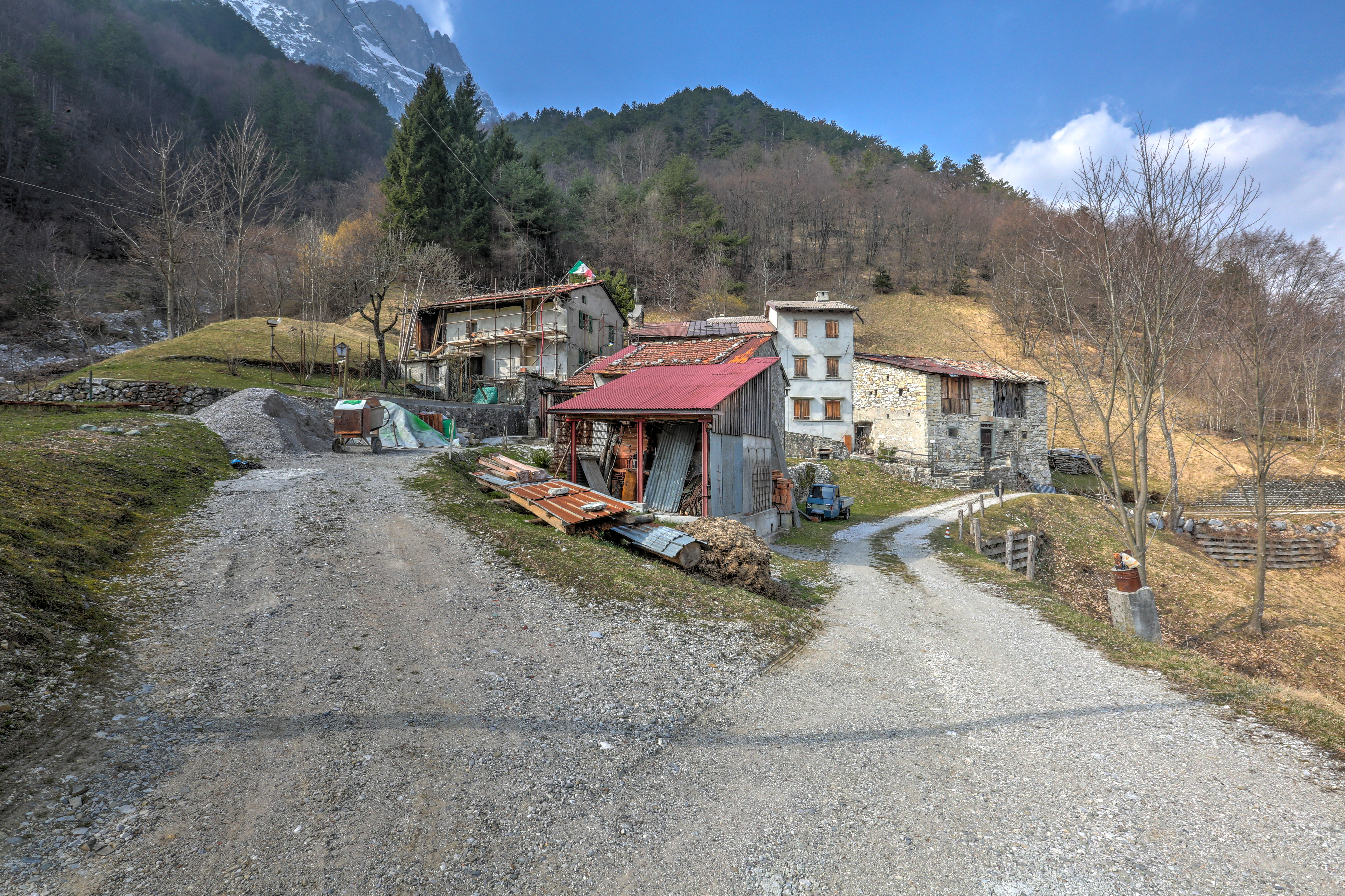 Fassoz opposite to Dordolla and Drentus in the Val d'Aupa in the Carnic Alps, community Moggio Udinese / Friuli-Venezia Giulia / Italy / EU